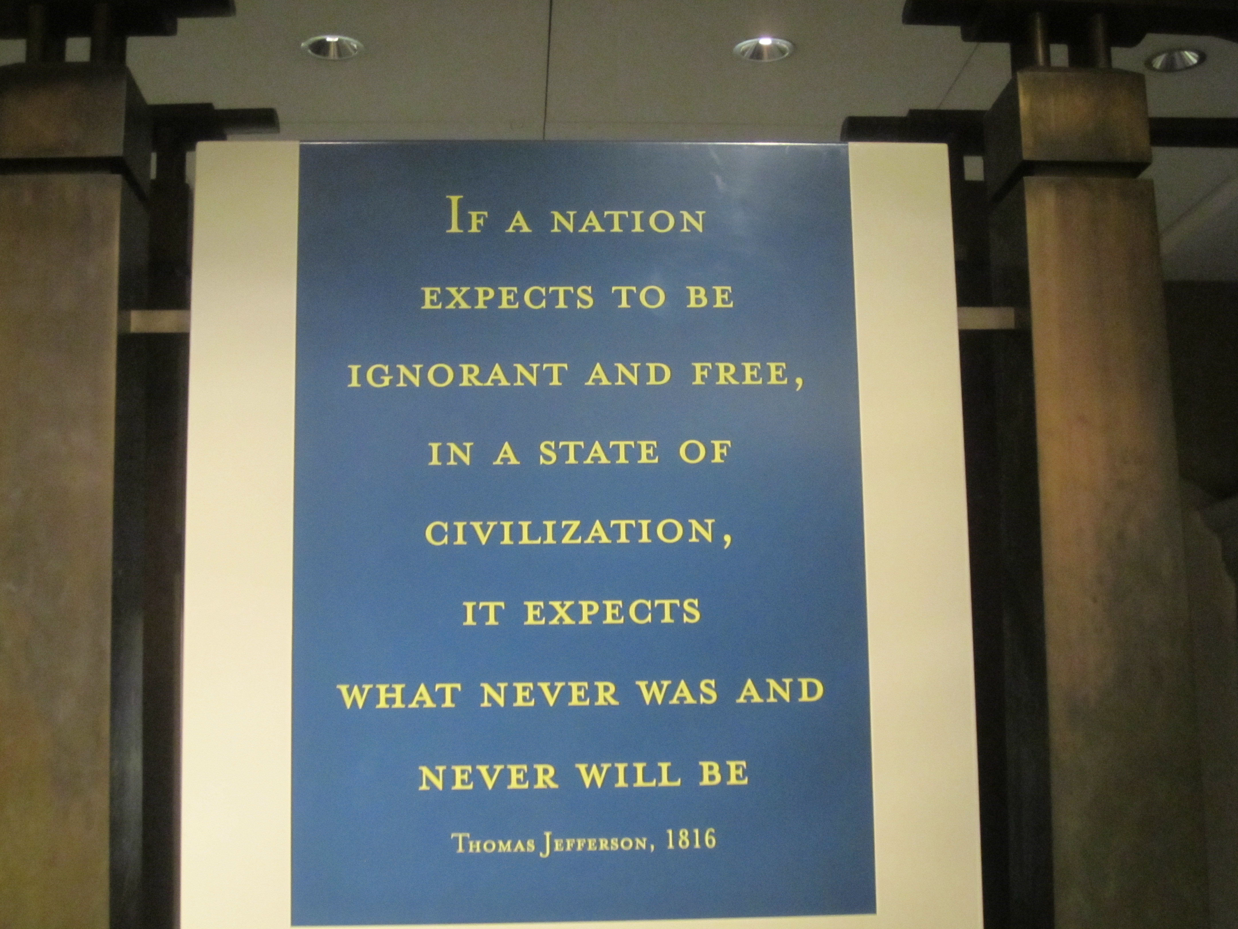 I took photo at Jefferson Memorial with Canon camera.